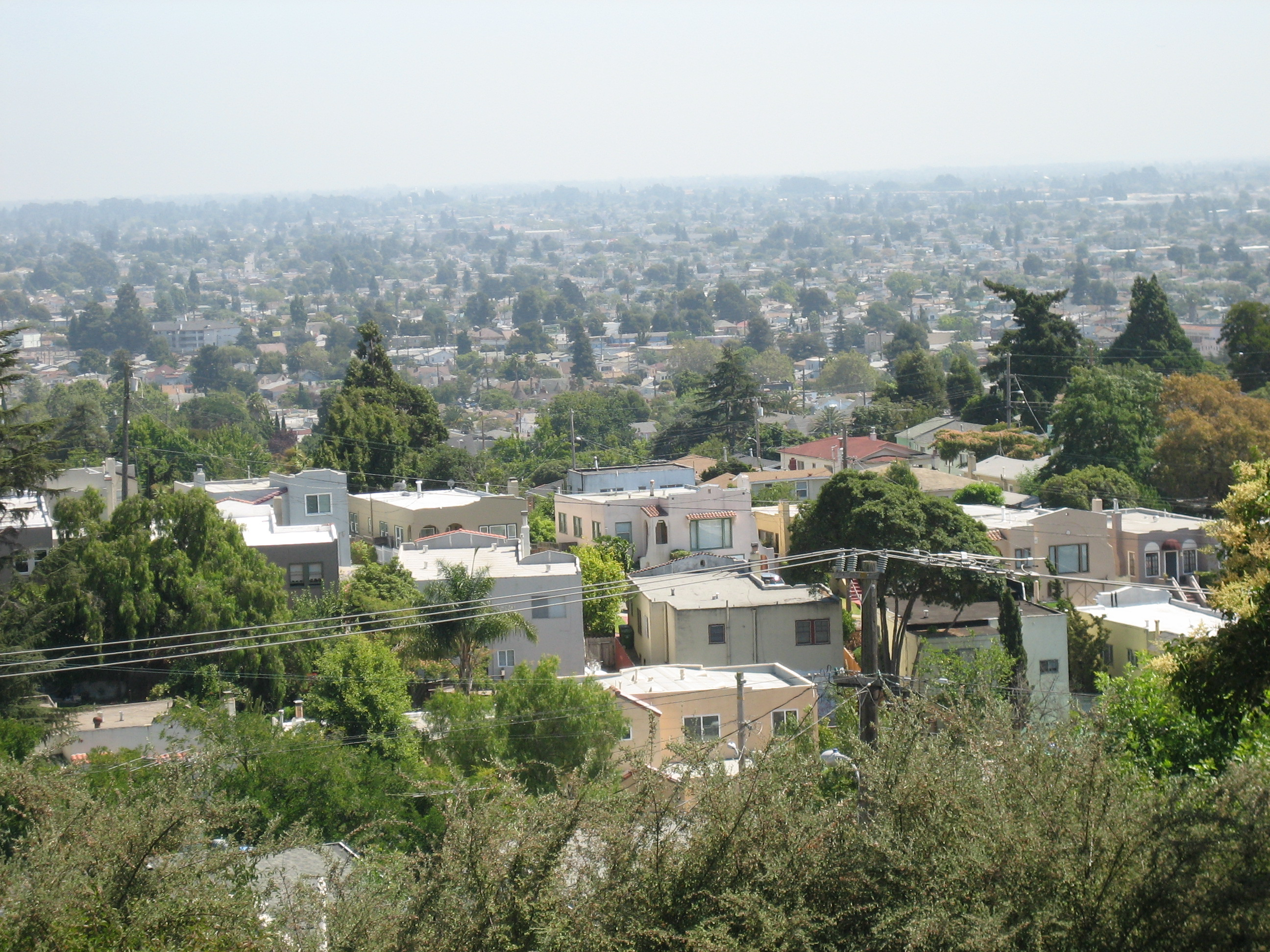 Image of Maxwell Park and further on, the rest of East Oakland.